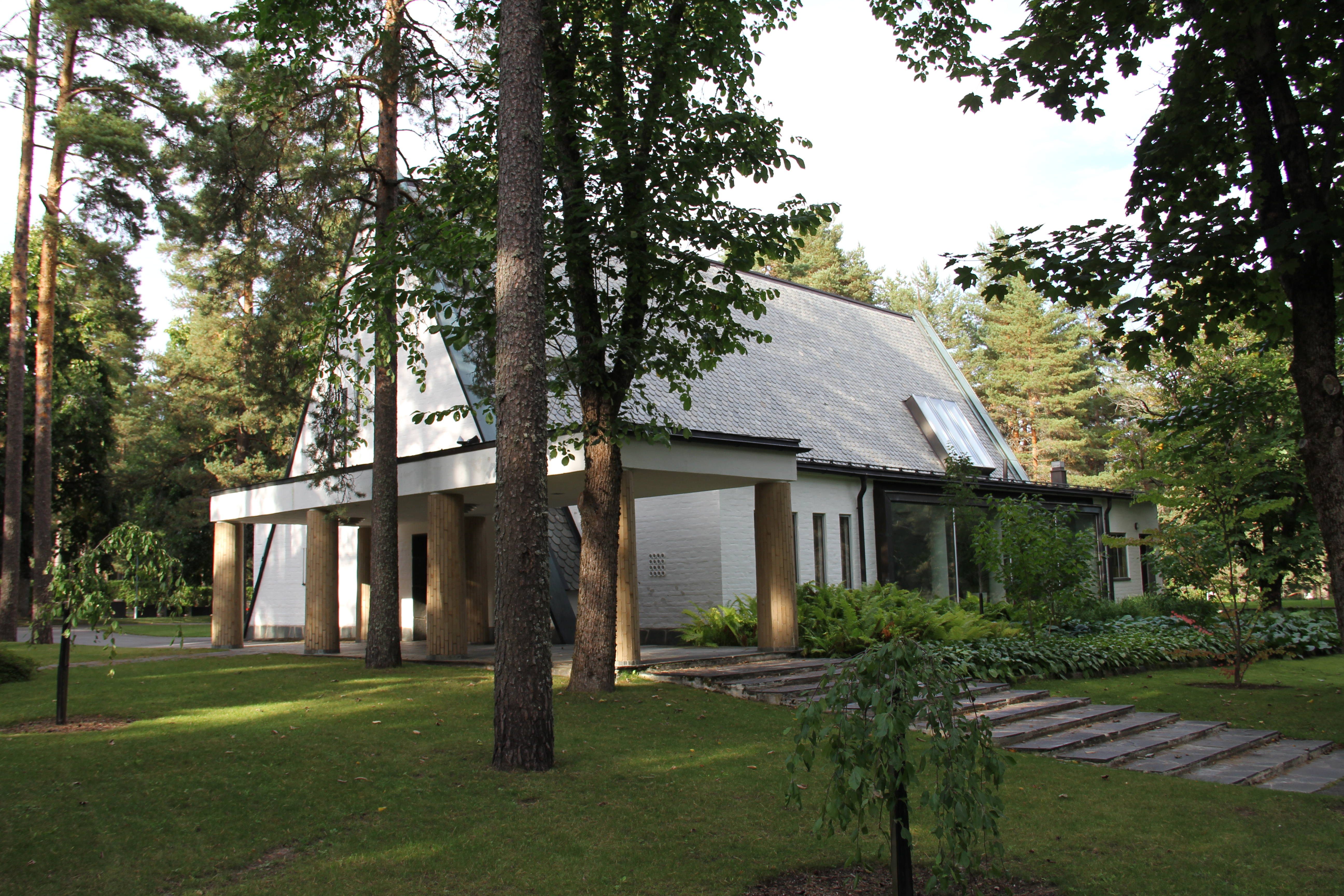 Metsola cemetery chapel in Metsola Cemetery, Lohja, Finland. Completed in 1956. Designed by architect Erik Bryggman. View from southwest.